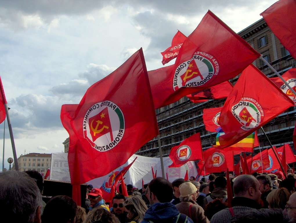 PRC flags in Rome